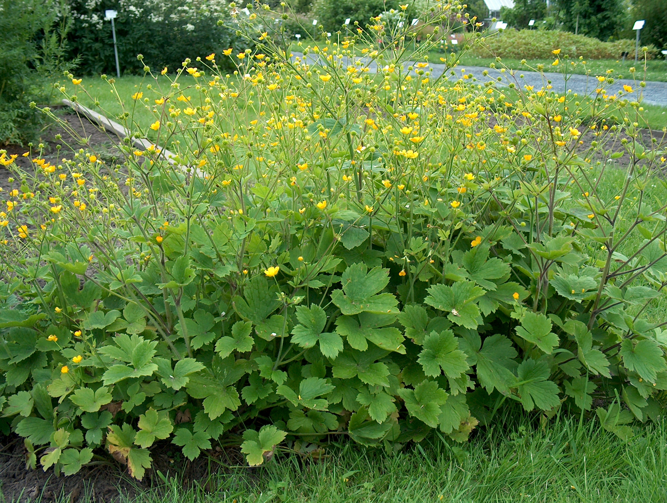 Woolly Buttercup (Ranunculus lanuginosus) in The University of Helsinki Botanical Garden in Kaisaniemi